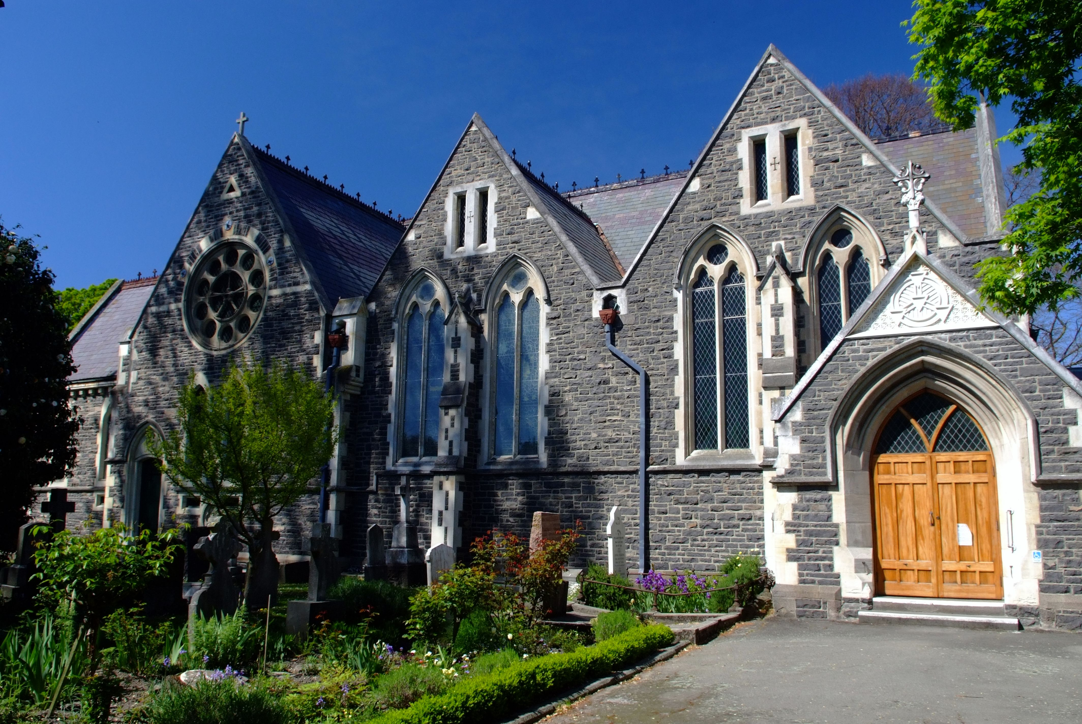 Holy Trinity Avonside in October 2008. The church was demolished in 2011.